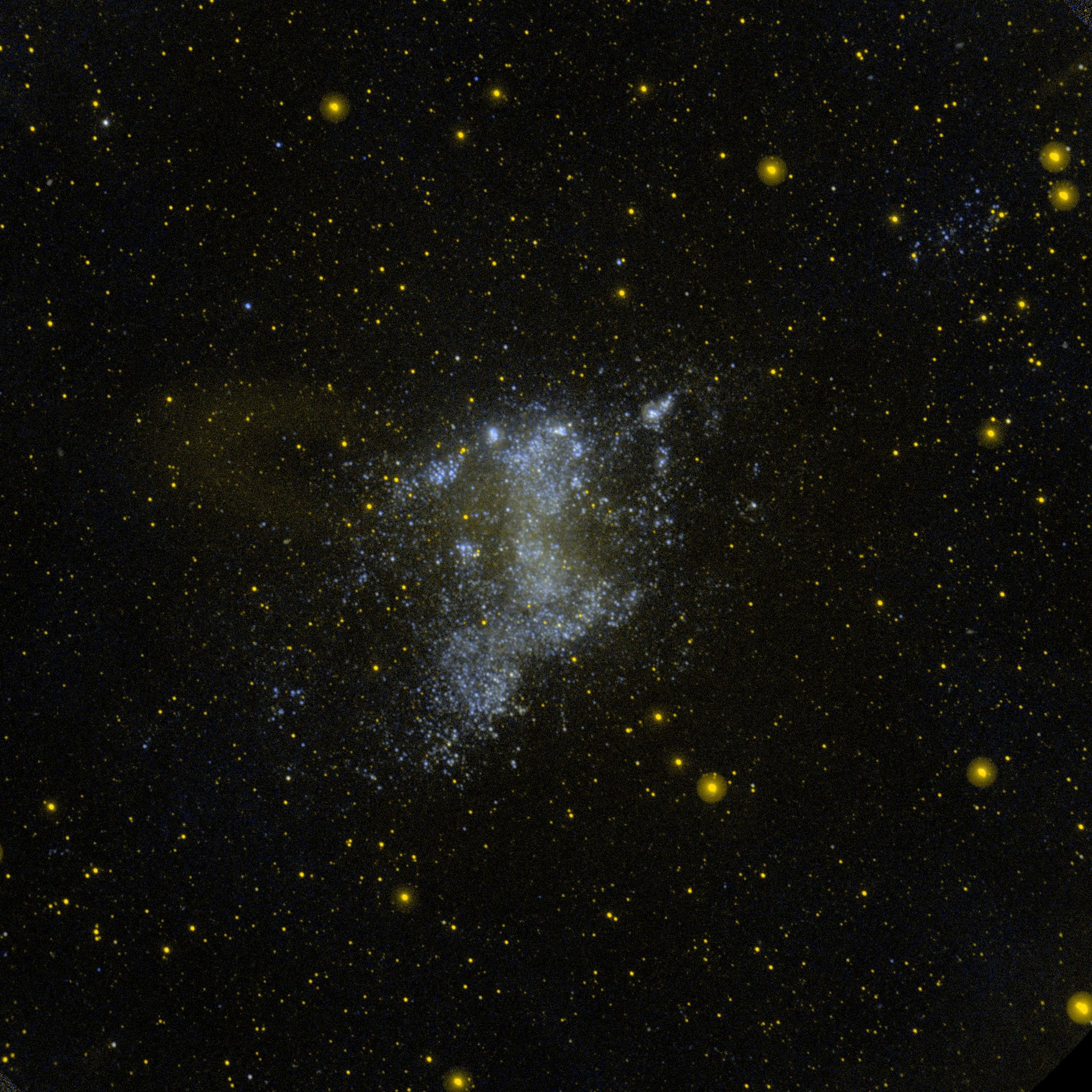 NGC 6822 (Barnard's Galaxy) in ultraviolet spectrum by GALEX